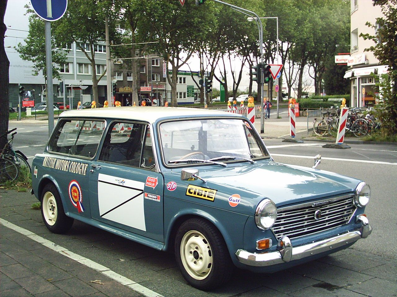 Austin 1300 (?) in Cologne, Germany check usage